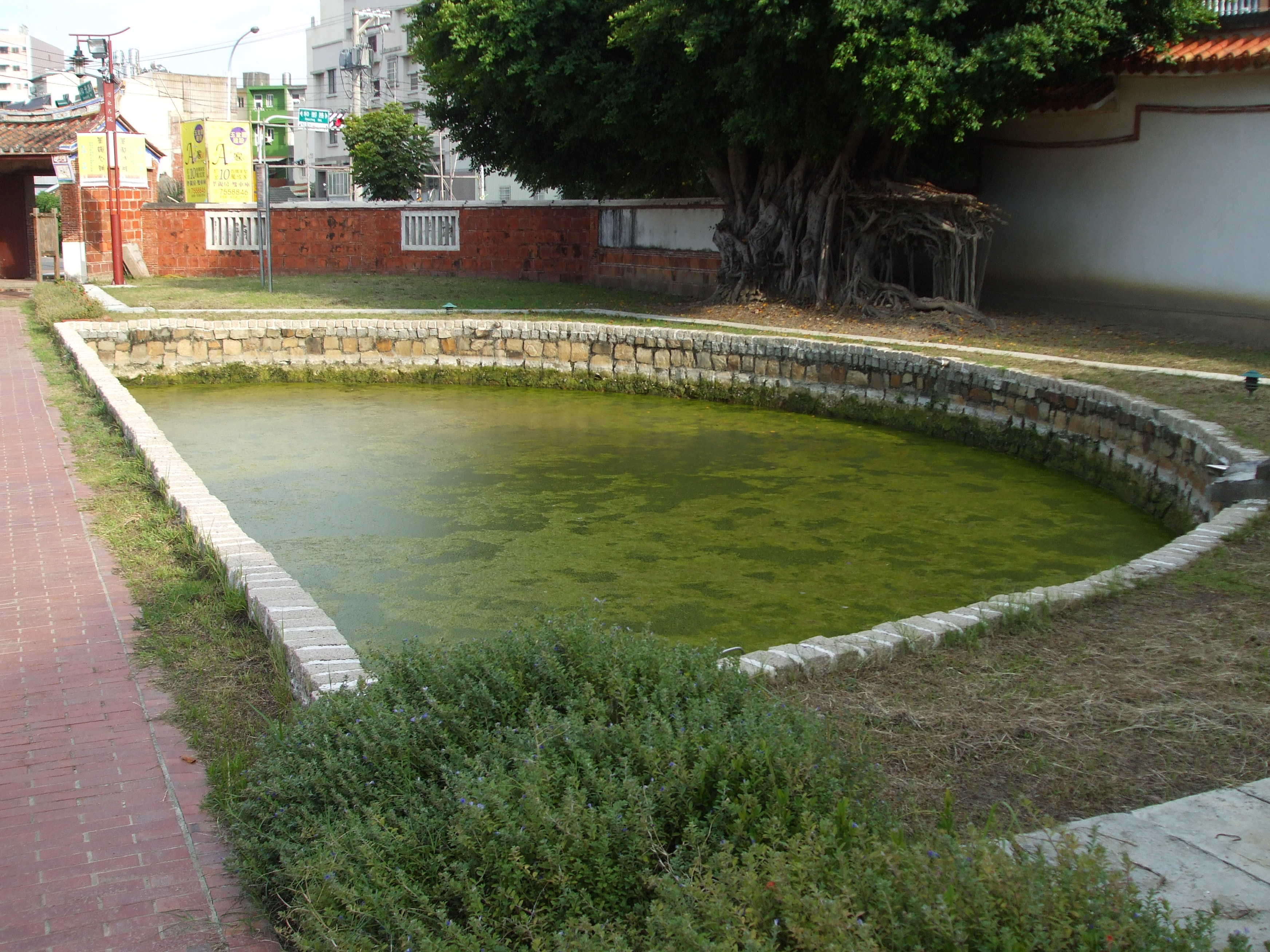 Daodong Tutorial Academy, Hemei Township, Changhua County, Taiwan